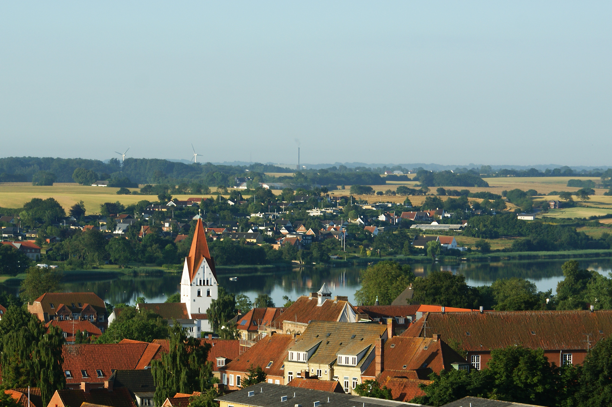 Haderslev Dam Lake in Haderslev Denmark